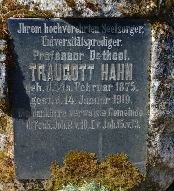 Close view oft Traugott Hahn's Gravestone